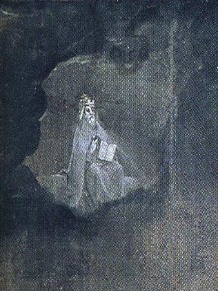 The Garden of Earthly Delights, outer left wing, detail.